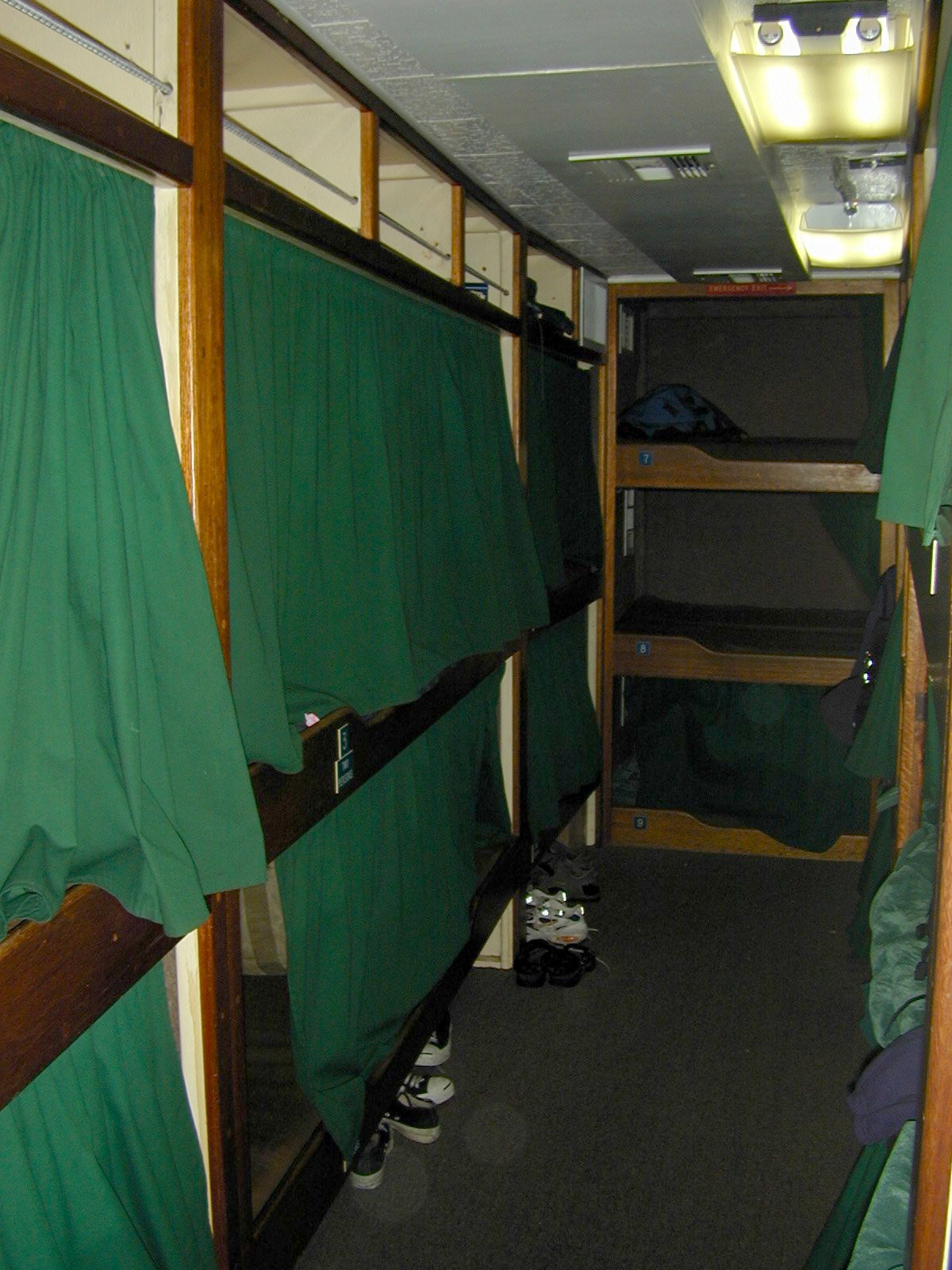 MV Conception bunk room (starboard, facing aft) during a dive trip in May 2003.